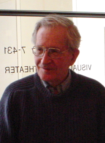 Noam Chomsky. The photo is taken in April 2002 in Cambridge, Massachusetts.